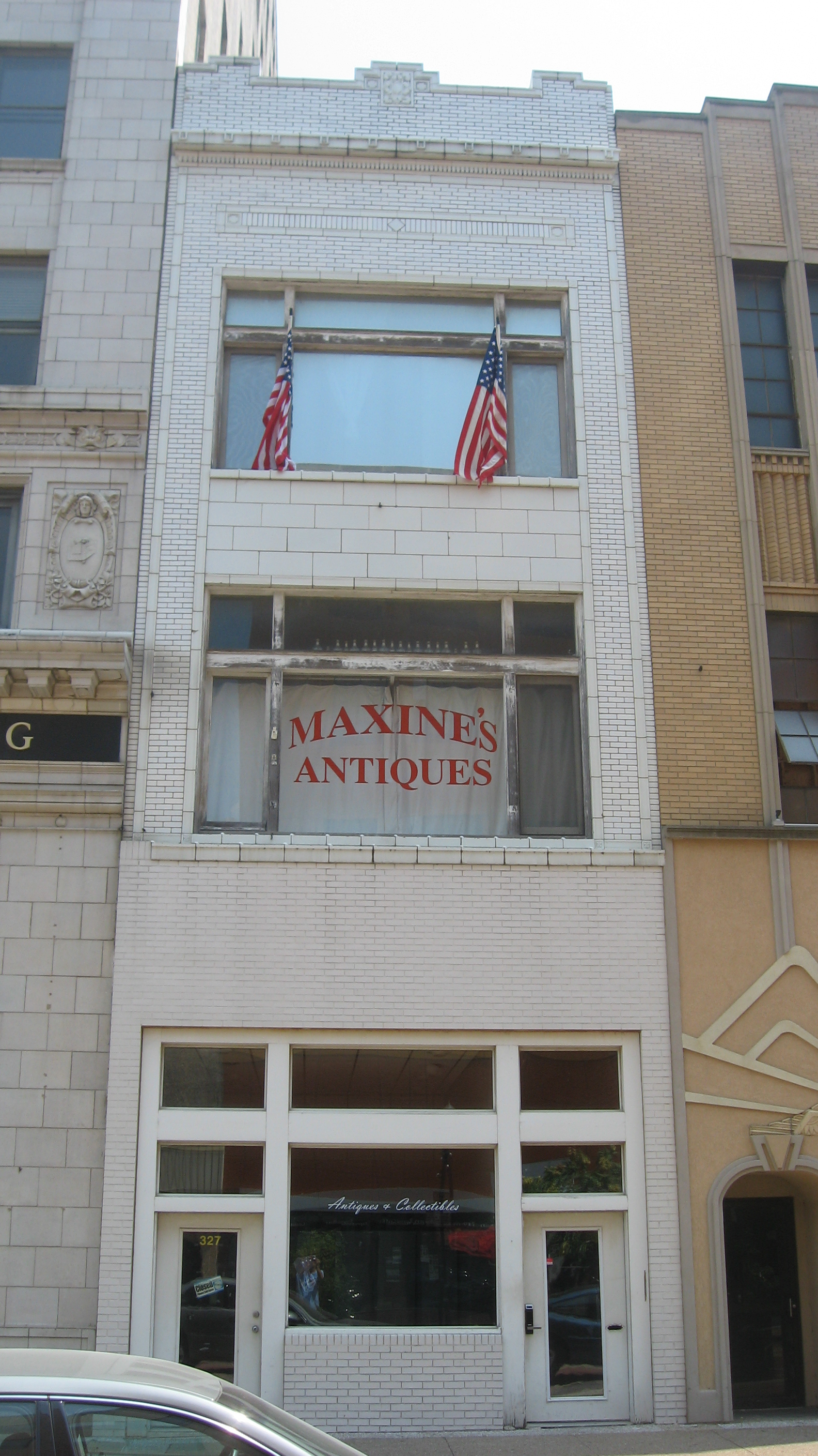 Front of the Kuebler-Artes Building, located at 327 Main Street in Evansville, Indiana, United States. Built in 1915, it is listed on the National Register of Historic Places.